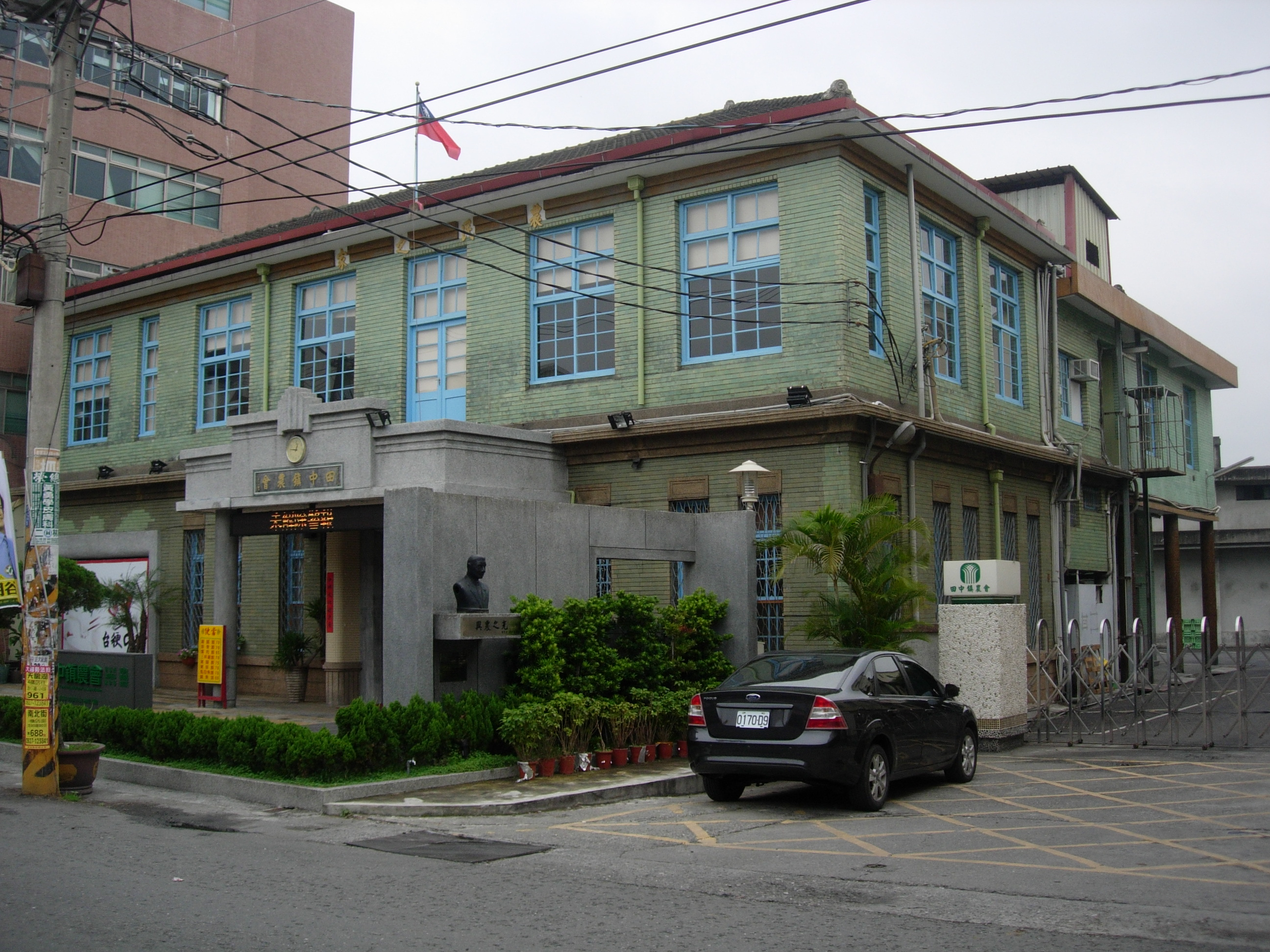 Tienchung Farmers' Association中文（台灣）: 田中鎮農會舊大樓。